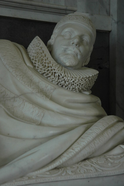 Effigy of Thomas, 1st Lord Coventry Effigy on the monument to Thomas, 1st Lord Coventry in St Mary's Church, Croome D'Abitot.